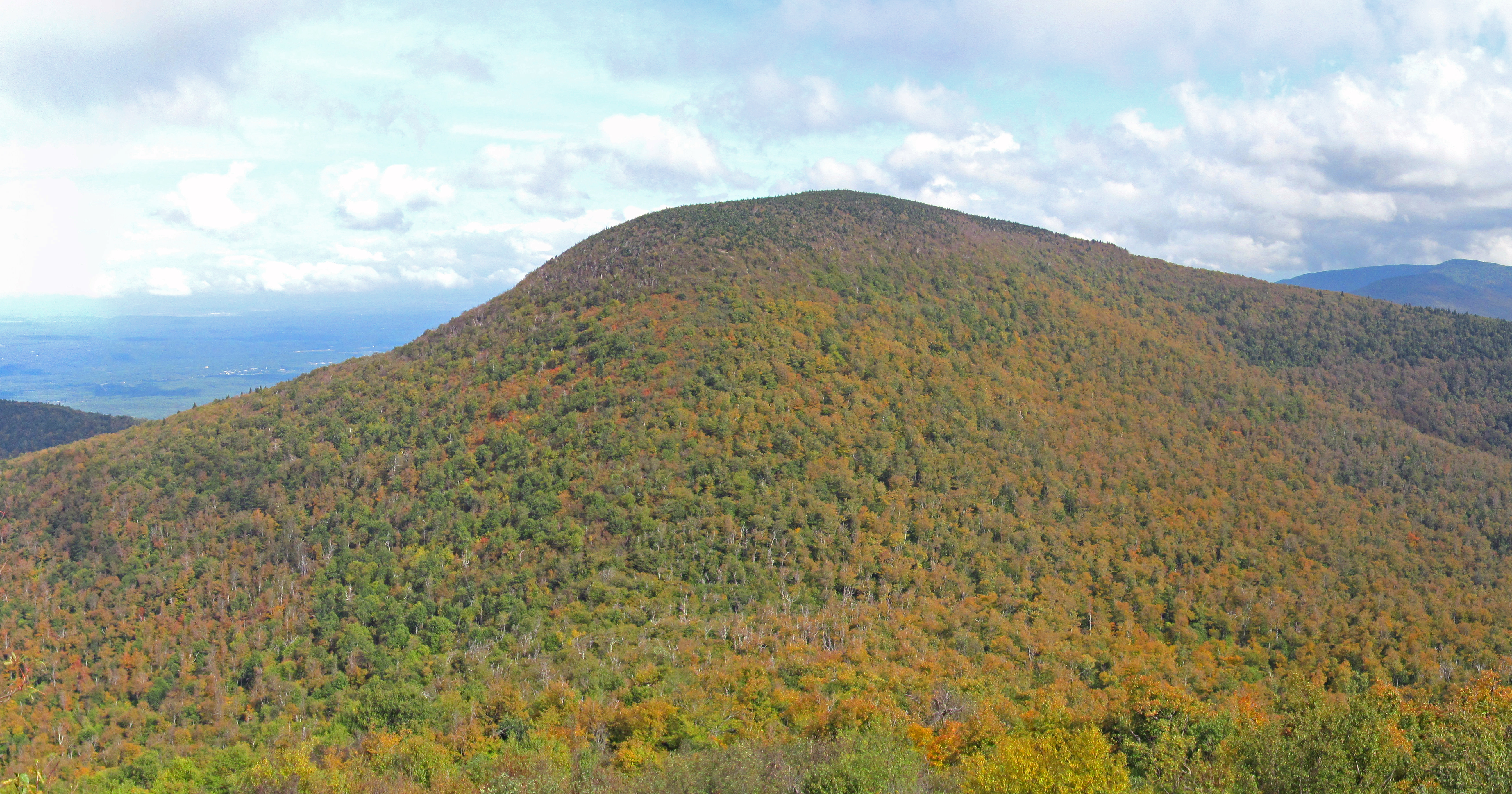 Blackhead Mountain, fifth-highest peak in New York's Catskills, from the slopes of neighboring Black Dome.